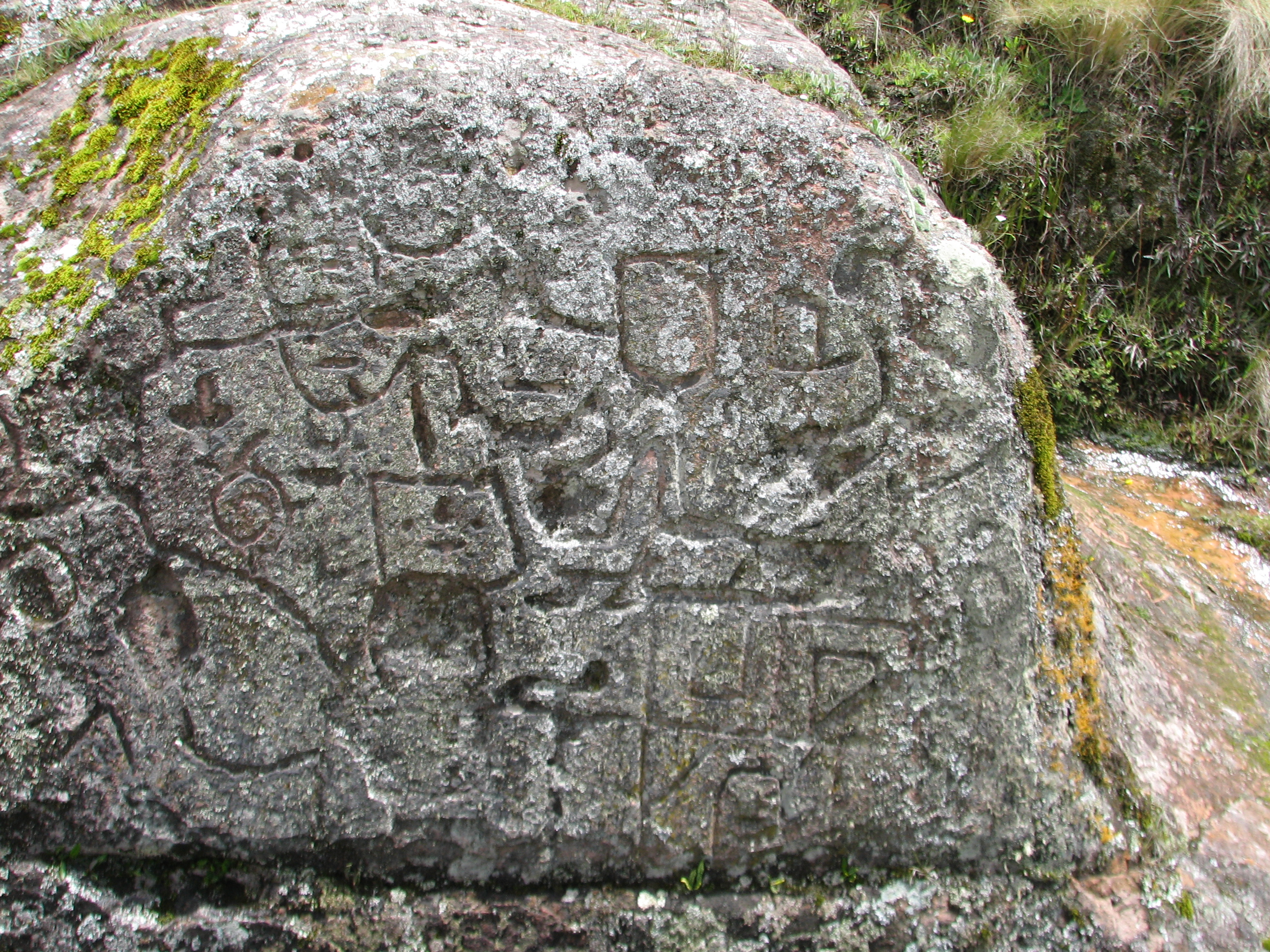 Cumbe Mayo Archaeological site (petroglyph)